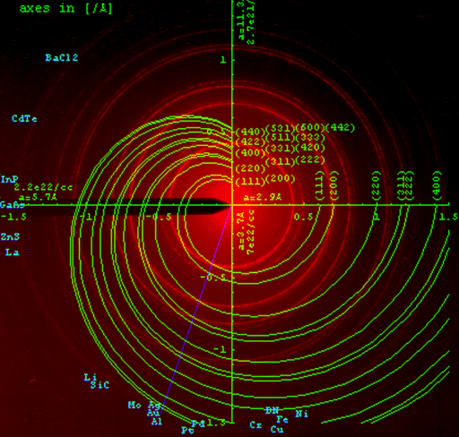 Electron diffraction pattern (red) of a polycrystalline Al film, with an fcc spiral overlay (green) to facilitate search for a line of intersections (blue) which confirms the fcc nature and provides a measure of the cubic lattice parameter as well. See also P. Fraundorf and Shuhan Lin (2004) "Spiral powder overlays", Microscopy and Microanalysis 10:S2, 1356-1357 and the January 2005 Microscopy Today 13: 8-11.